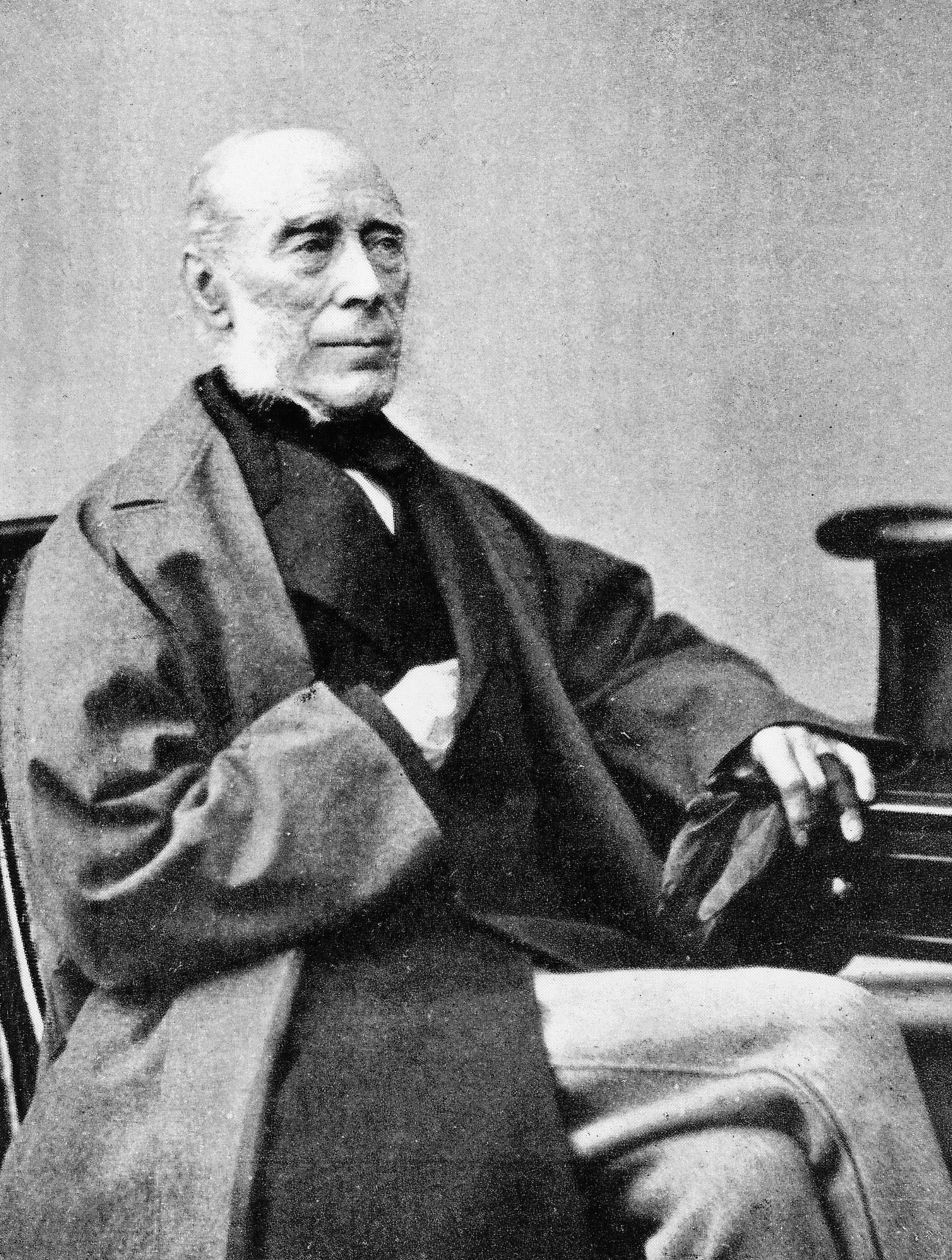 Sir James Clark